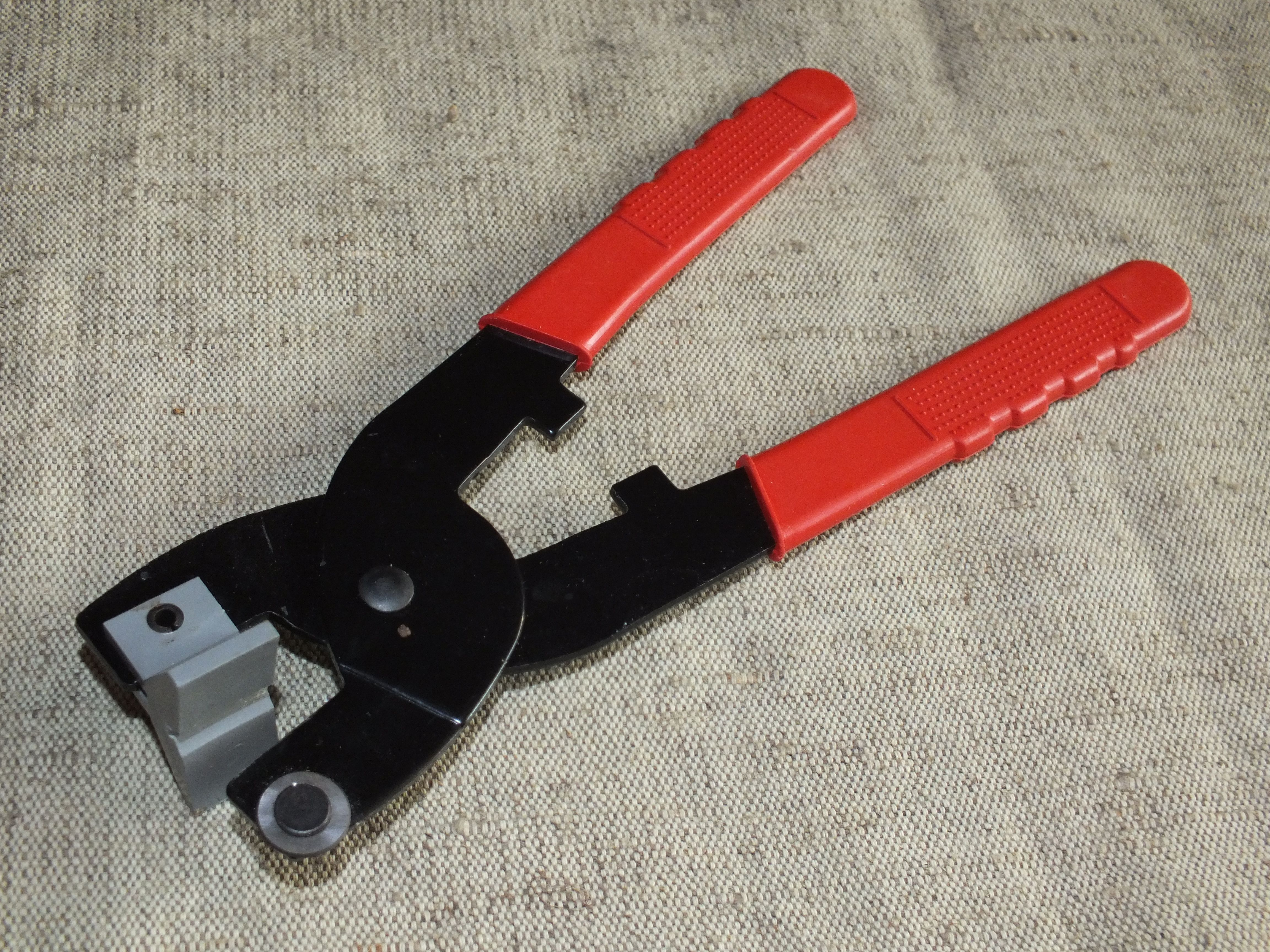 Glass cutters